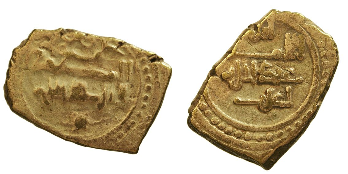 Fraction of dinar minted by the taifa of Valencia under the reign of Abd al-Malik al-Muzaffar. Made of electrum.